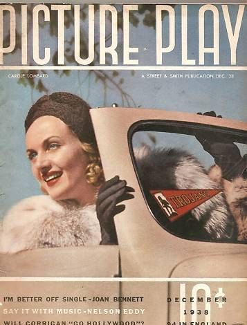 Carole Lombard